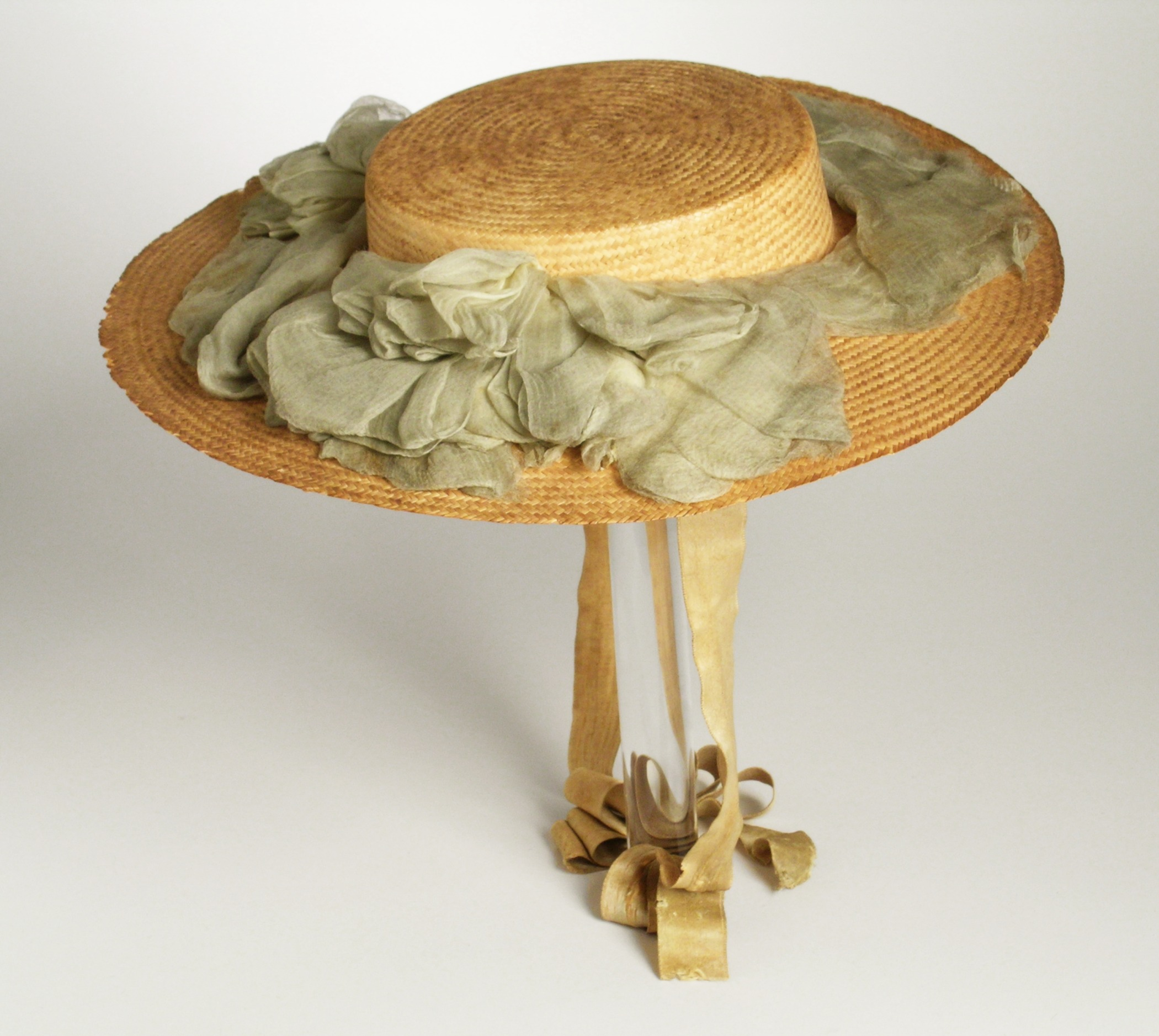 United States, Michigan, Grand Rapids, circa 1890 Costumes; Accessories Leghorn straw, silk chiffon Gift of Dorothy M. Dixon (M.83.231.69) Costume and Textiles